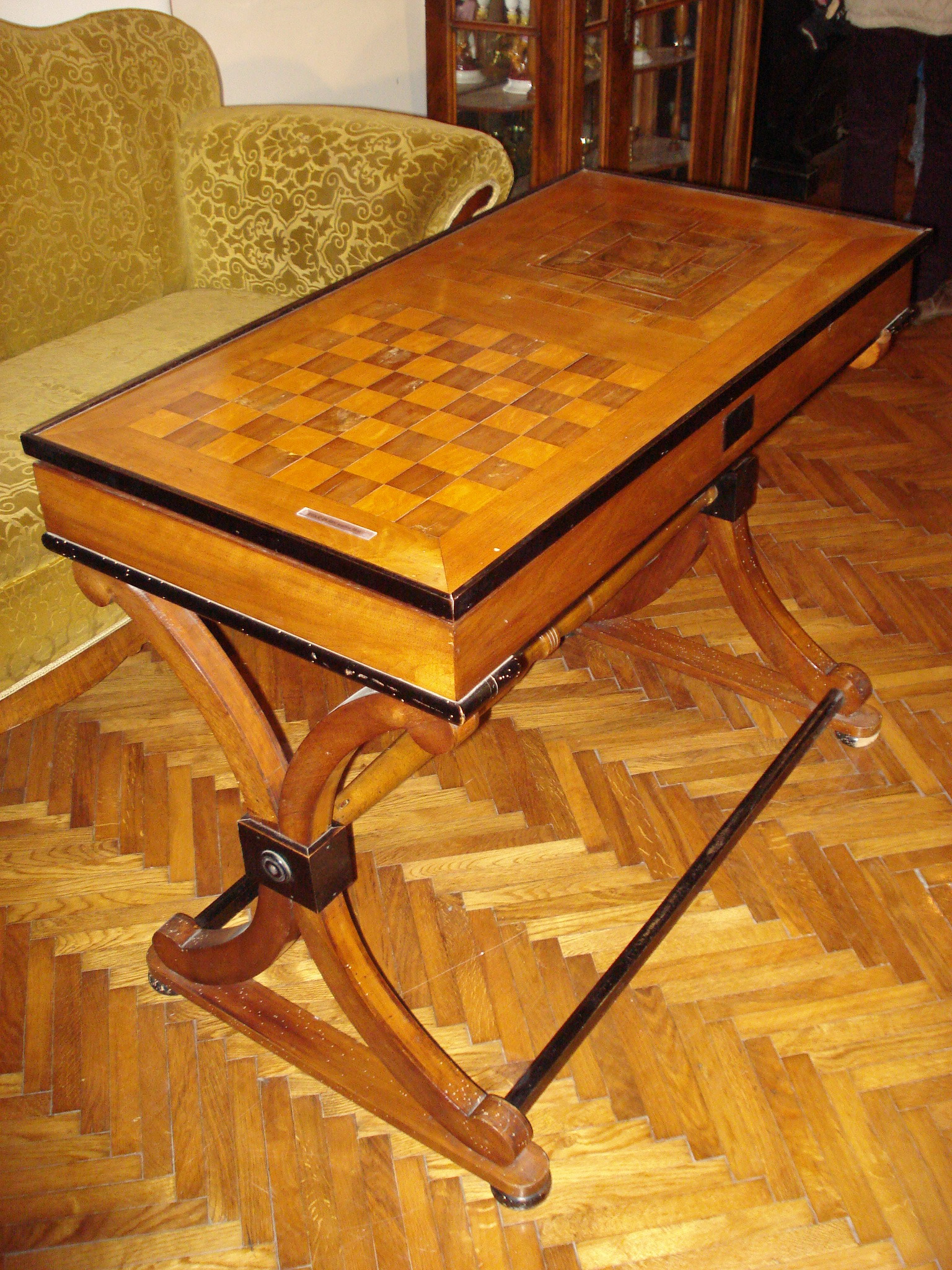 Night of museums 2014. in Medjimurje County Museum in Čakovec (Croatia) - Chess and Mill Game tableHrvatski: Noć muzeja 2014. u Muzeju Međimurja Čakovec (Hrvatska) - stol za šah i mlin